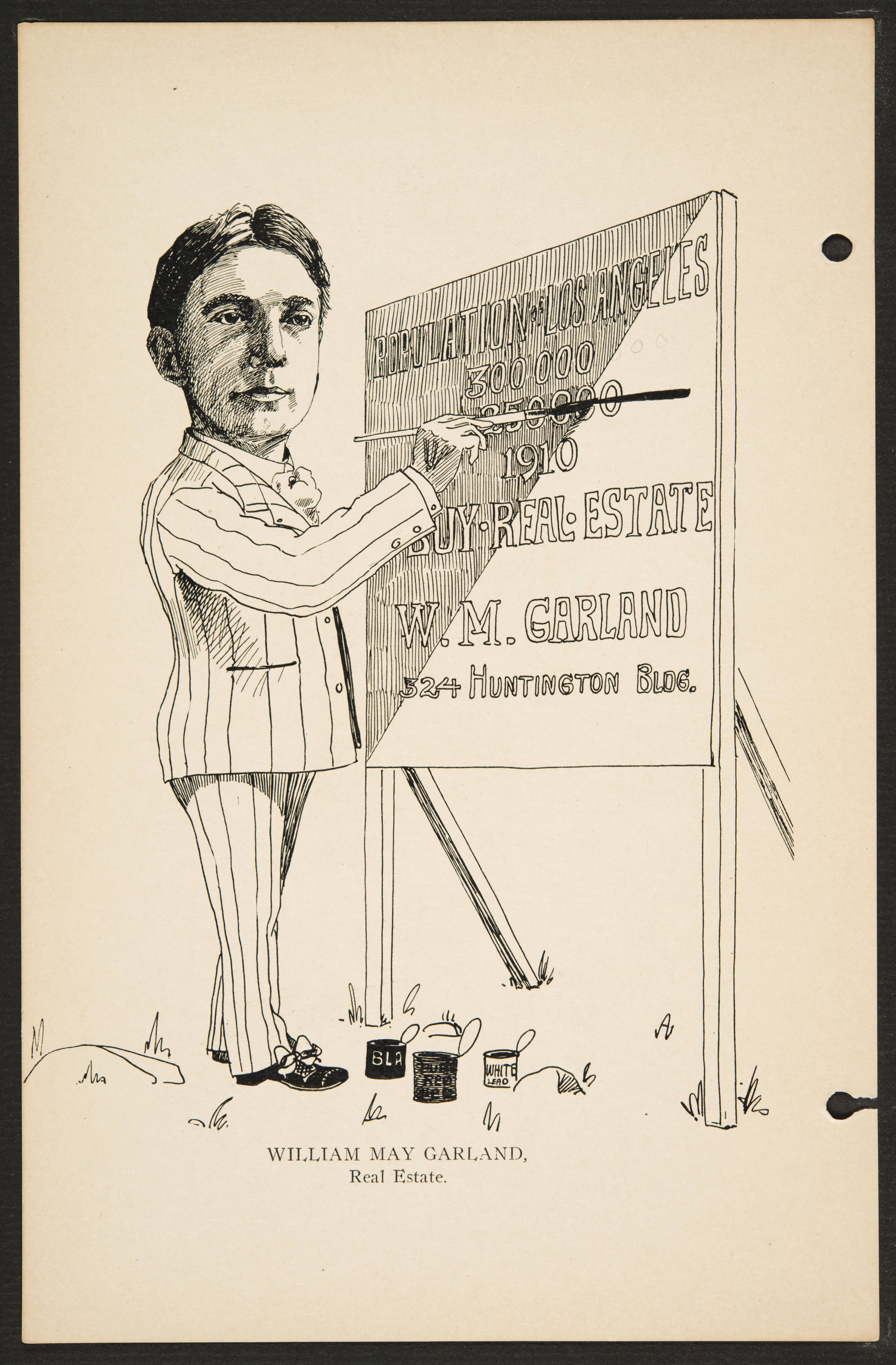 As we see 'em As we see 'em: a volume of cartoons and caricatures of Los Angeles citizens. Portland, Oregon: E.A. Thomson, [1904?-1911?]. With an introduction by Antony E. Anderson. "Photographs from which these pen and ink sketches were produced have been furnished by Schumacher. Place of publication (of the original version): Portland, Oregon, USA Filename: laas-shidler-f860-c12 Coverage date: 1900?/1911 Part of collection: LA as Subject Type: texts; images Part of subcollection: Wally G. Shidler Historical Collection of Southern California Ephemera Repository name: Wally G. Shidler Historical Collection of Southern California Ephemera Format: 316 p. of ports. ; 30 cm. Date issued: 1904?/1911? Repository address: 2934 Cudahy Street, Walnut Park, CA 90255-6829, USA Date created: 1904?/1911? Language: English Subject (topic): Los Angeles (Calif.) -- Biography -- Portraits Contributing entity: Wally G. Shidler Title (alternate): Southern Californians "as we see 'em" Publisher (of the digital version): University of Southern California Format (aat): caricatures; books Creator: Anderson, Antony E., introduction Legacy record ID: laas-m Access conditions: By appointment. Reservations required. Phone 323-581-2367. Contributor: Southern California Printing Co., printer; Thorpe Engraving Col, engraver; Commercial Engraving Co., engraver Publisher (of the original version): E.A. Thomson